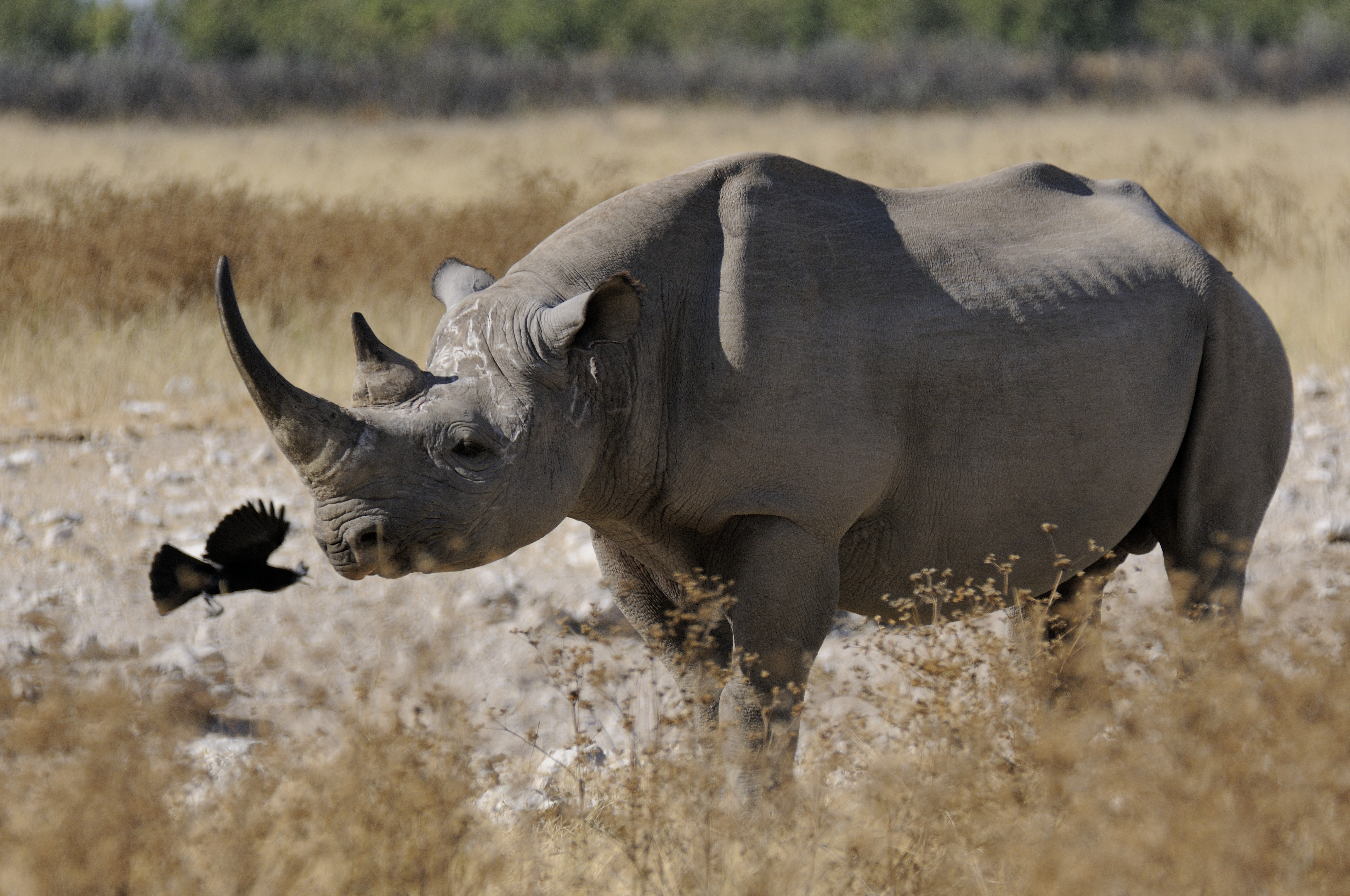 Black rhino (Diceros bicornis), Gemsbokvlakte, Etosha/Namibia